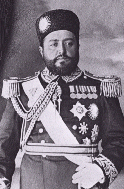 Habibullah Khan was the Emir of Afghanistan from 1901 until his assassination in 1919. He was born in Tashkent, the eldest son of the Emir Abdur Rahman Khan, whom he succeeded by right of primogeniture in October 1901.